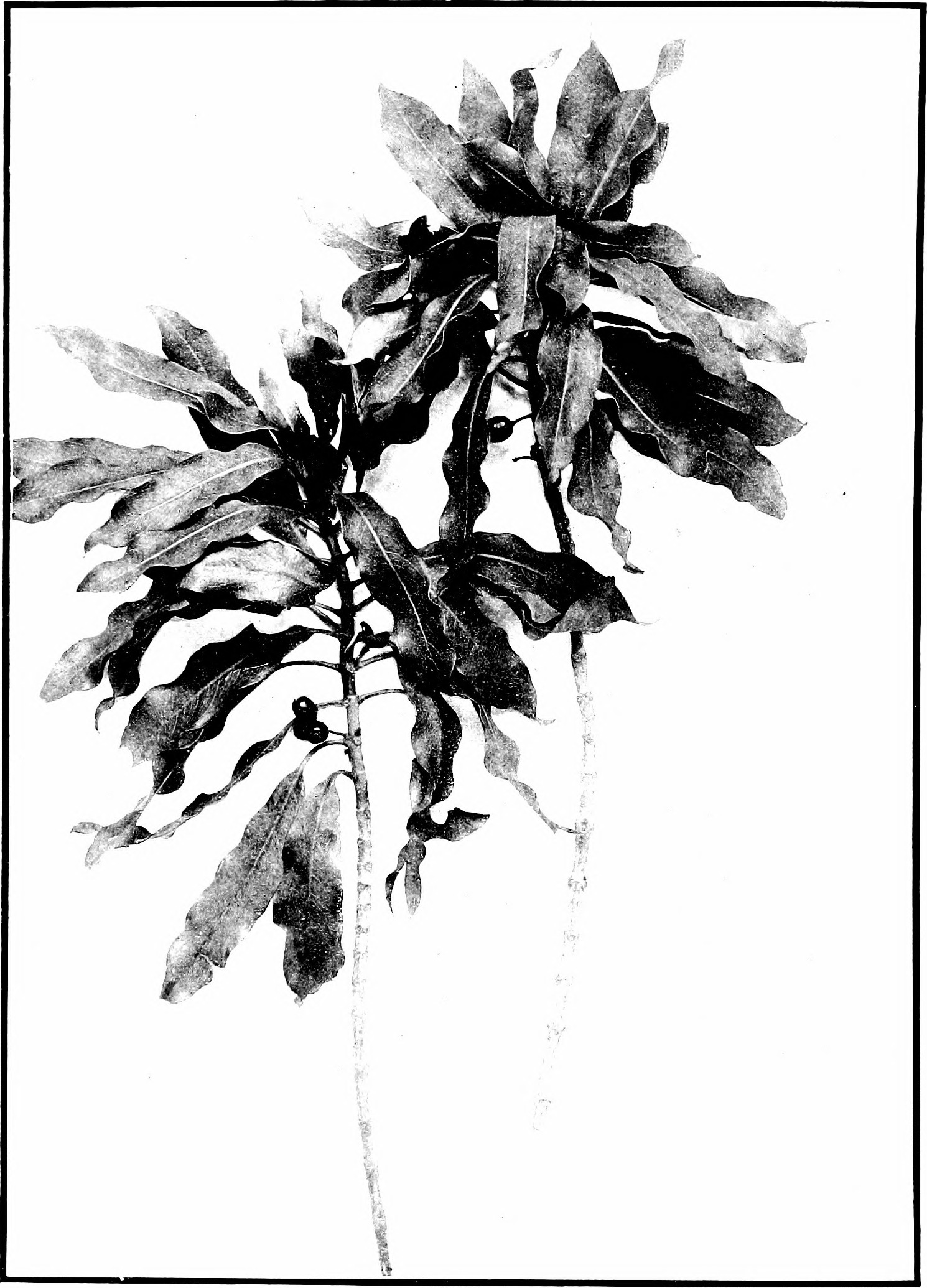 Title: The indigenous trees of the Hawaiian Islands Year: 1913 (1910s) Authors: Rock, Joseph Francis Charles, 1884-1962 Subjects: Trees Publisher: Honolulu, T. H. Text Appearing Before Image: 'LATE 193 Text Appearing After Image: COPROSMA LONGIFOLIA (Irav. Pilo. Fiuitiiii;' luniich, aliont oiio-liaH' untui'.-il size.